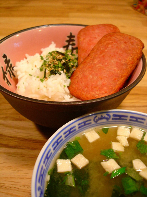 Spam, Rice, Nori and Miso Soup